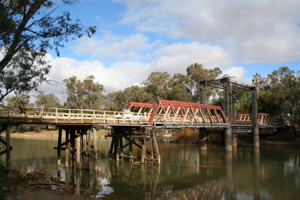 Bridge over the Murray River. Swan Hill. Victoria, Australia